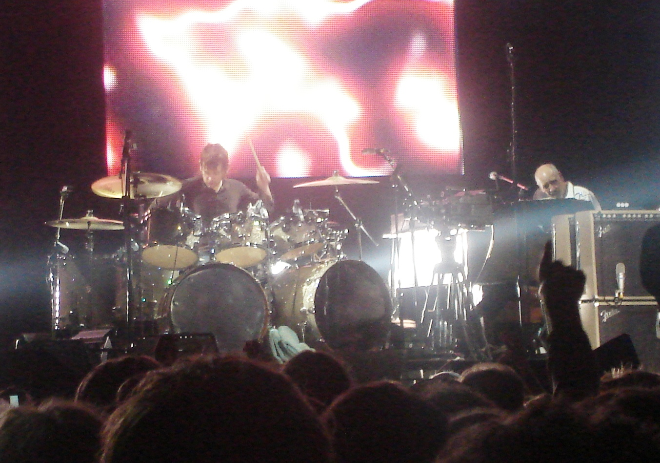 The Who performing at the Rotterdam Ahoy'